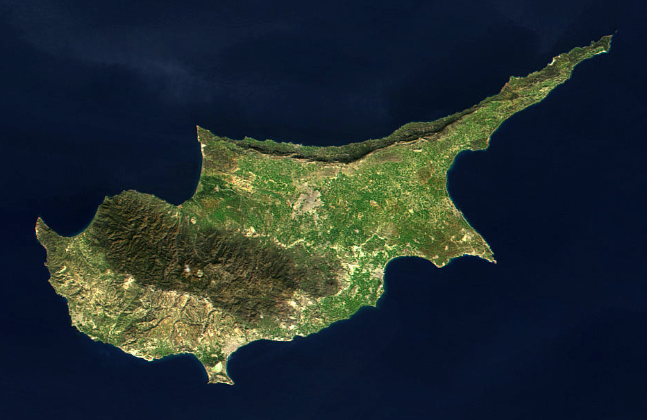 Cyprus from space.